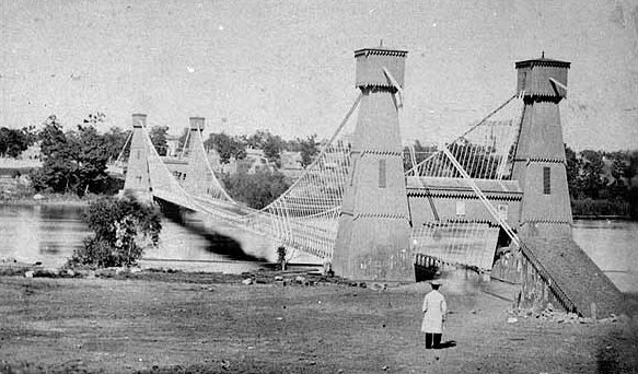 The first Hennepin Avenue Bridge across the Mississippi River from Downtown Minneapolis to Nicollet Island, built 1855. Photo taken around 1865.